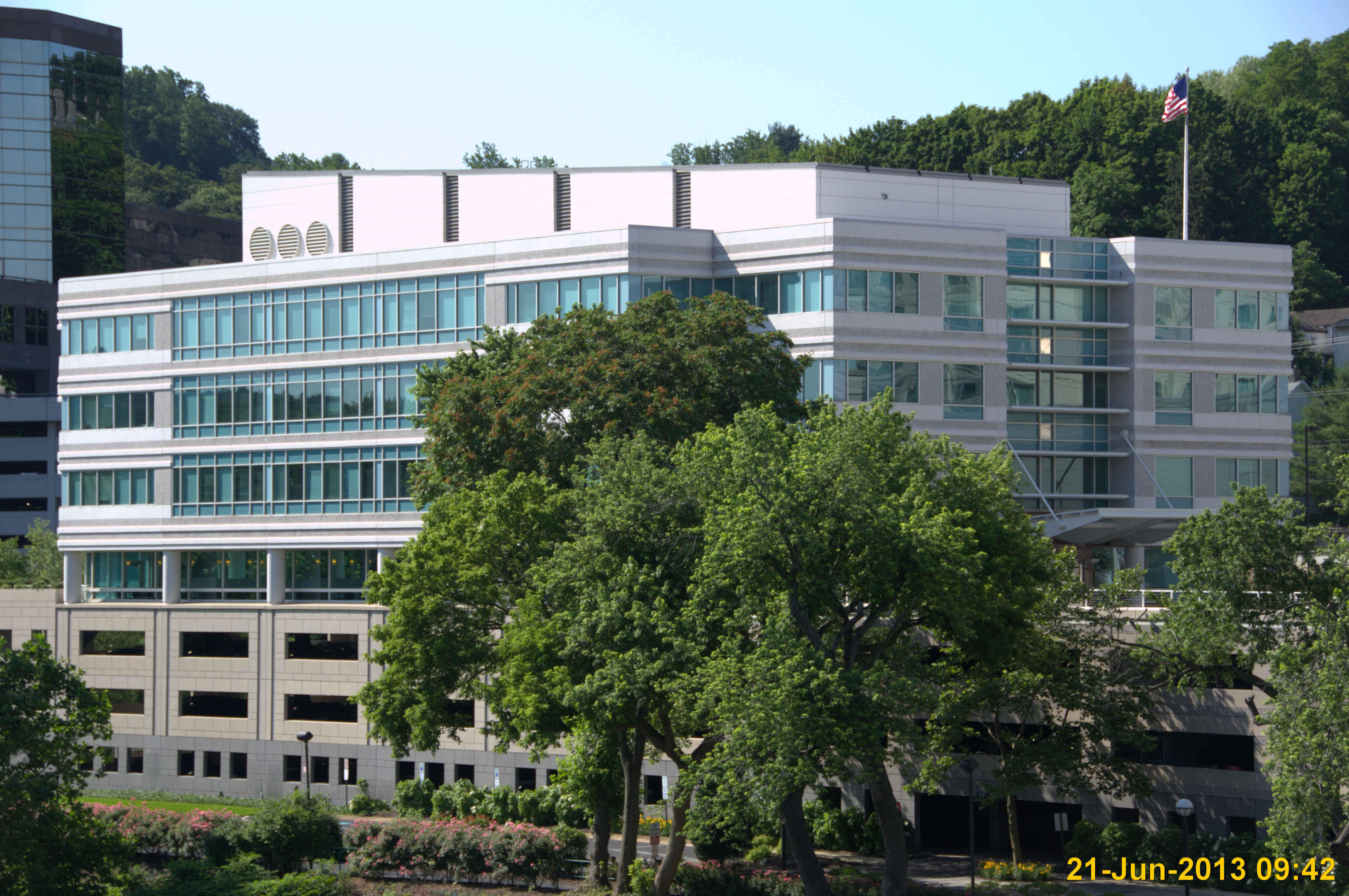 This picture is one in a series of 29 pictures of the headquarters of ASTM and its surroundings.